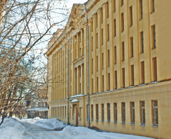 Russian State Archive of Literature and Artr (RGALI) in Moscow